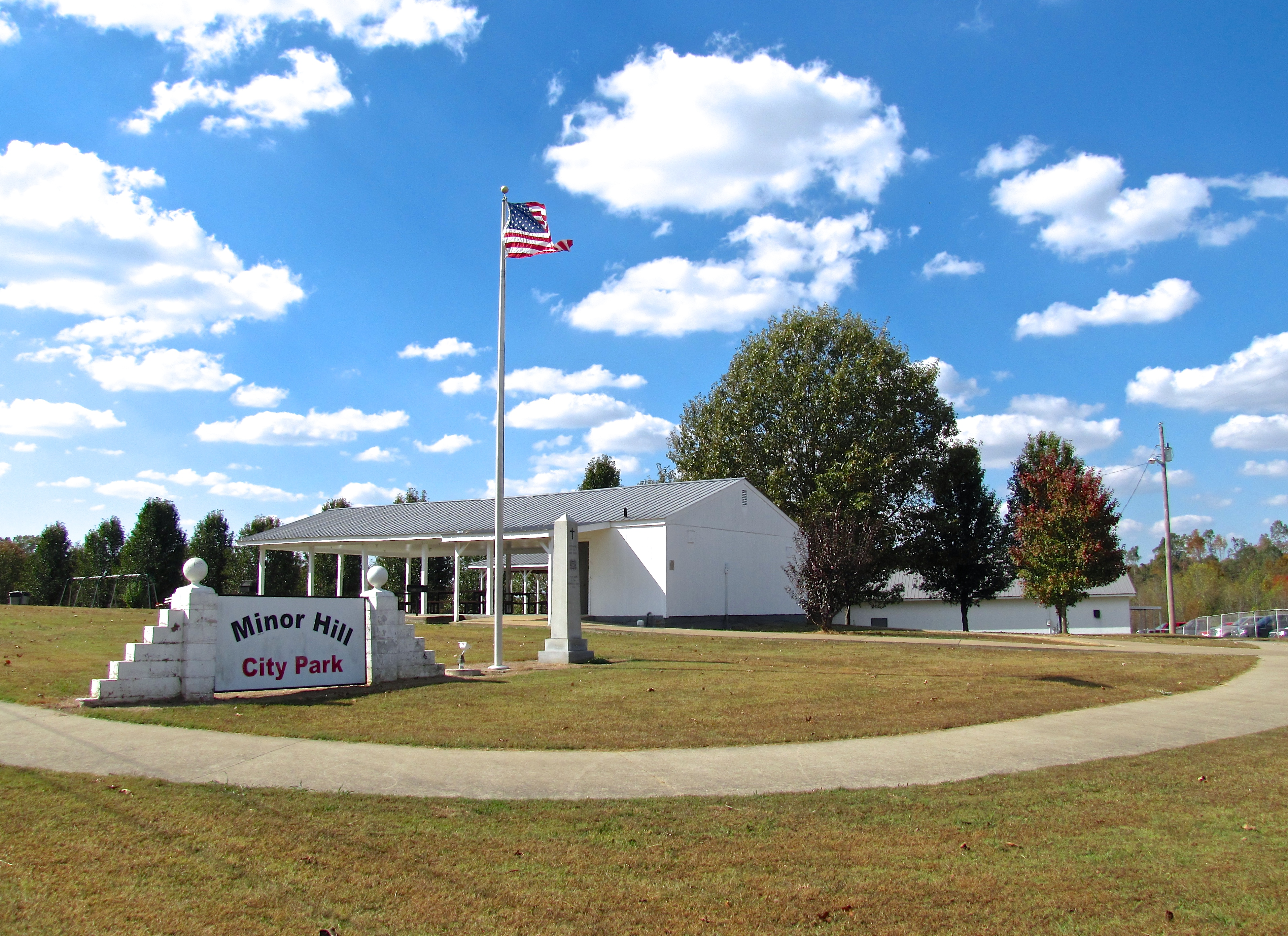 City Park in Minor Hill, Tennessee, United States.